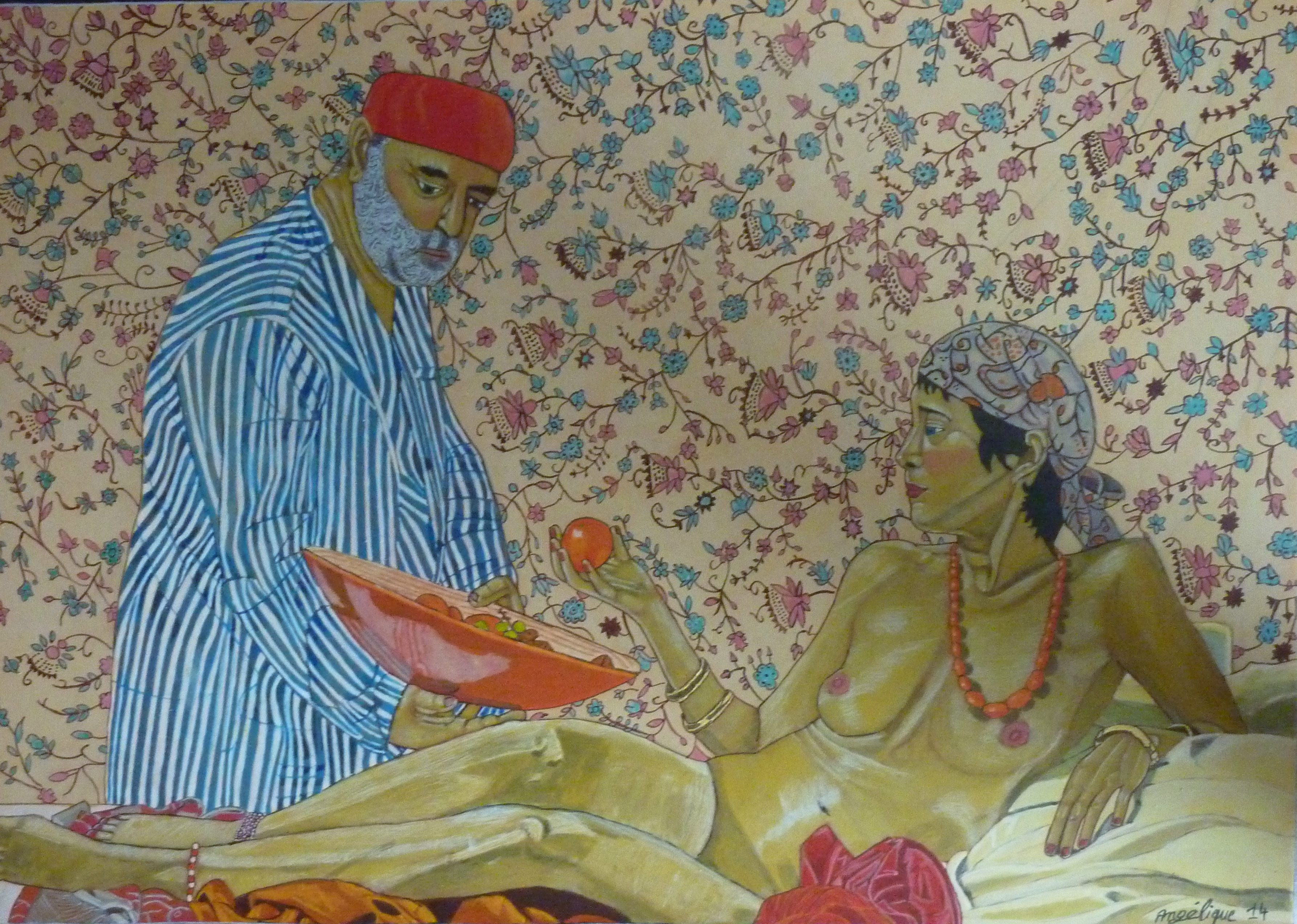 An odalisque with an orange